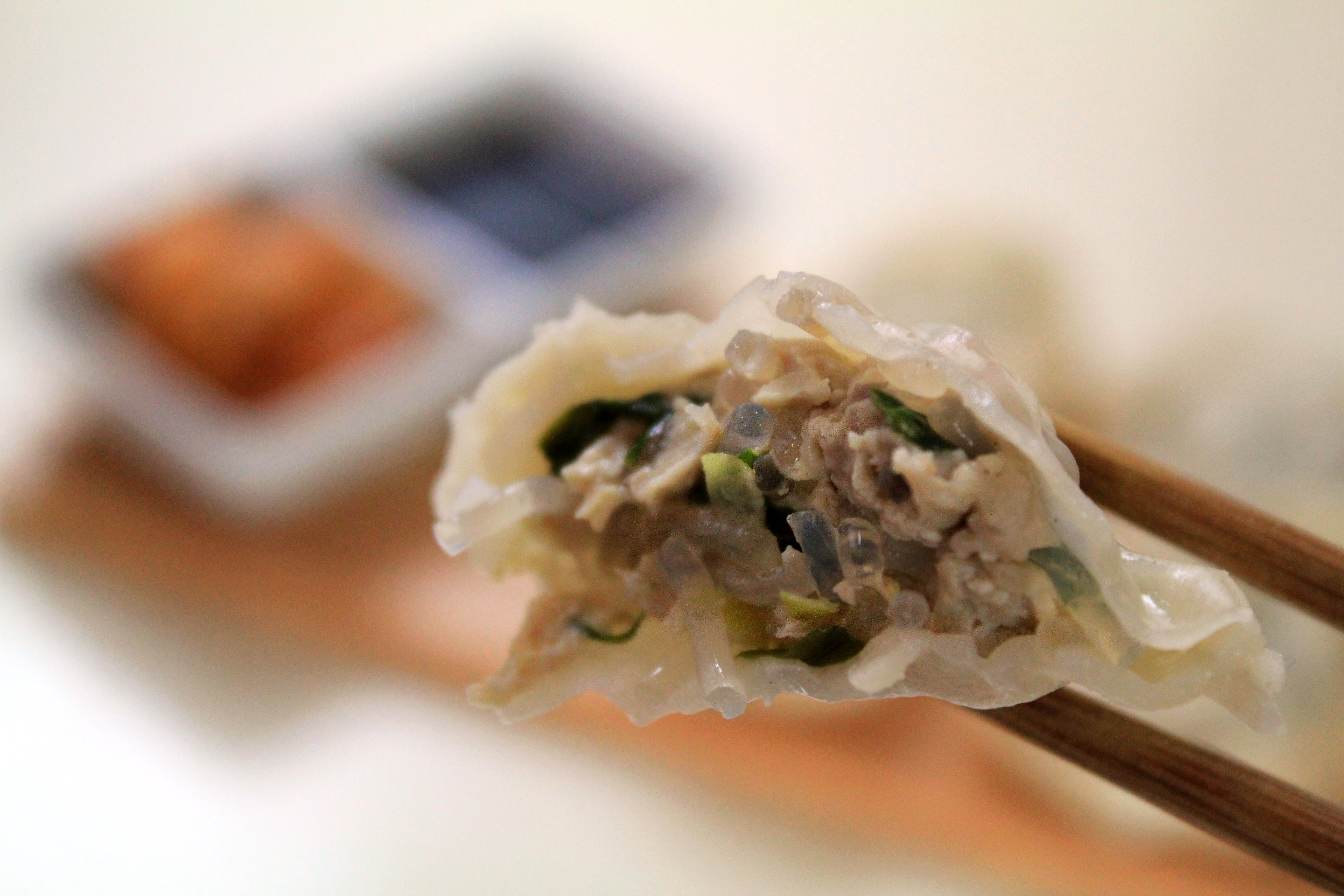 Mandu (dumpling)